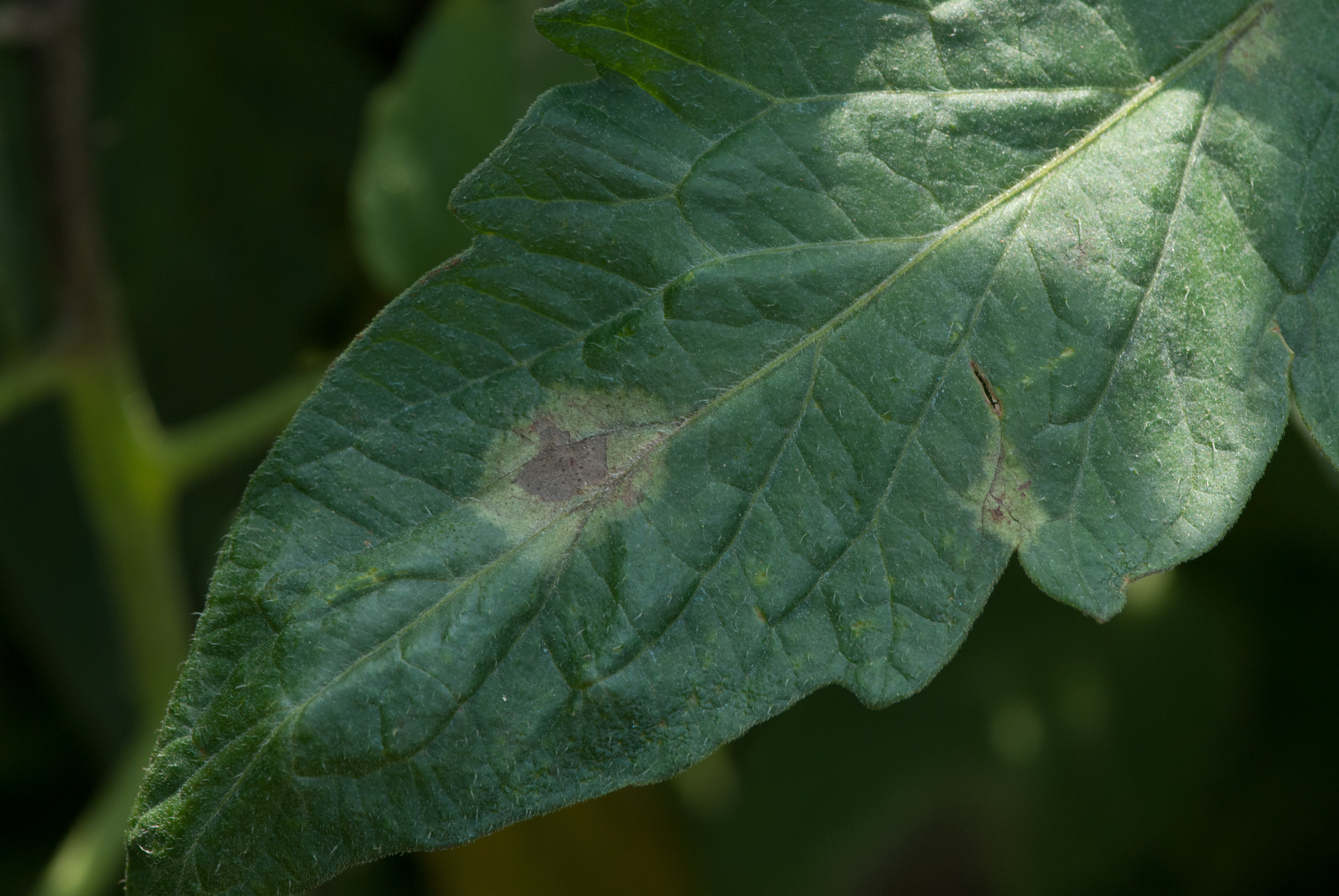 Late blight on tomato leaf